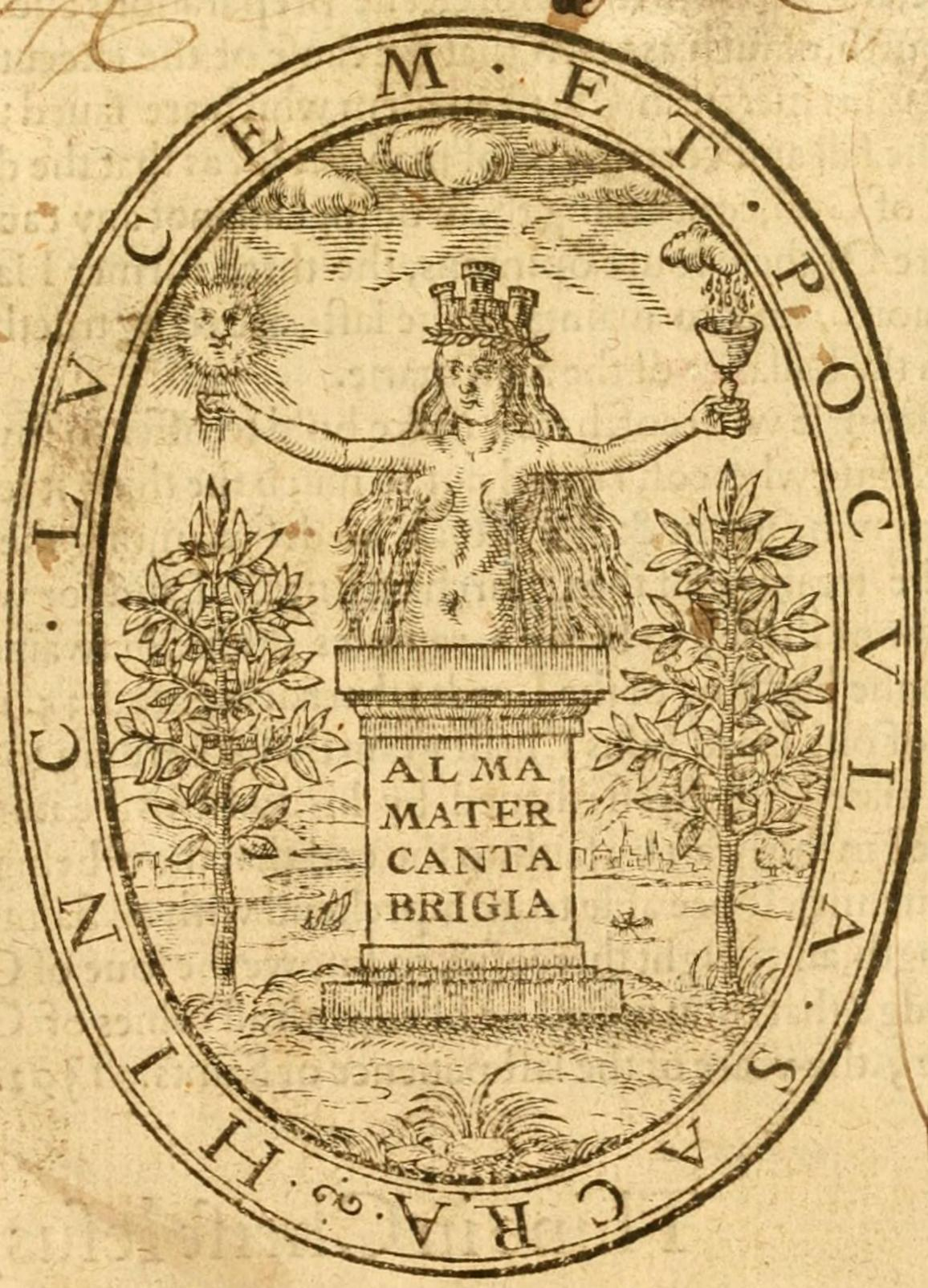 An Image of Alma Mater for a title-plate by John Legate, printer of the University of Cambridge. The central pedestal is inscribed with: Alma Mater Cambrigia and the motto Hinc lucem et pocula sacra girdles the device. A description of the engraving from Stokes, H. P. (1928): "From behind the pedestal rises a nude female figure, three-quarter length with flowing hair, crowned with a mural crown rising out of a wreath. In her left hand she holds a cup or chalice, receiving drops from a cloud; in her right hand she holds a sun radiated. On each side of the pedestal stands an olive tree; while in the background there is a river, with a sail boat on one side and a rowing boat on the other. Beyond under the sun is a castle, or a church; and under the chalice a town with spires and towers." Stokes, H.P. (1928). The Emblem, the Arms and the Motto of the University of Cambridge: Notes on Their Use by University Printers Cambridge: Cambridge University Press.